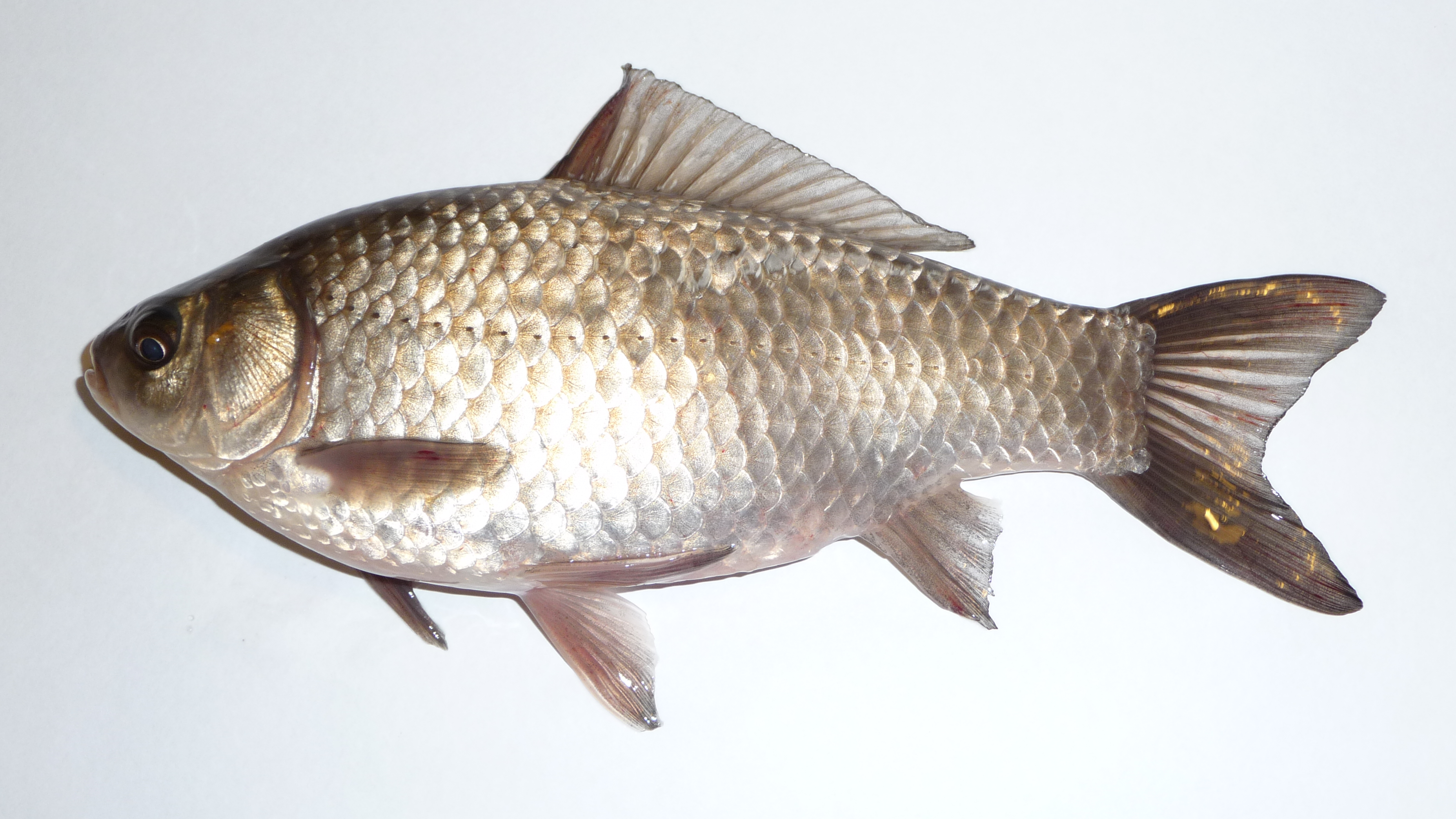 Prussian Cock, Carassius auratus gibelio